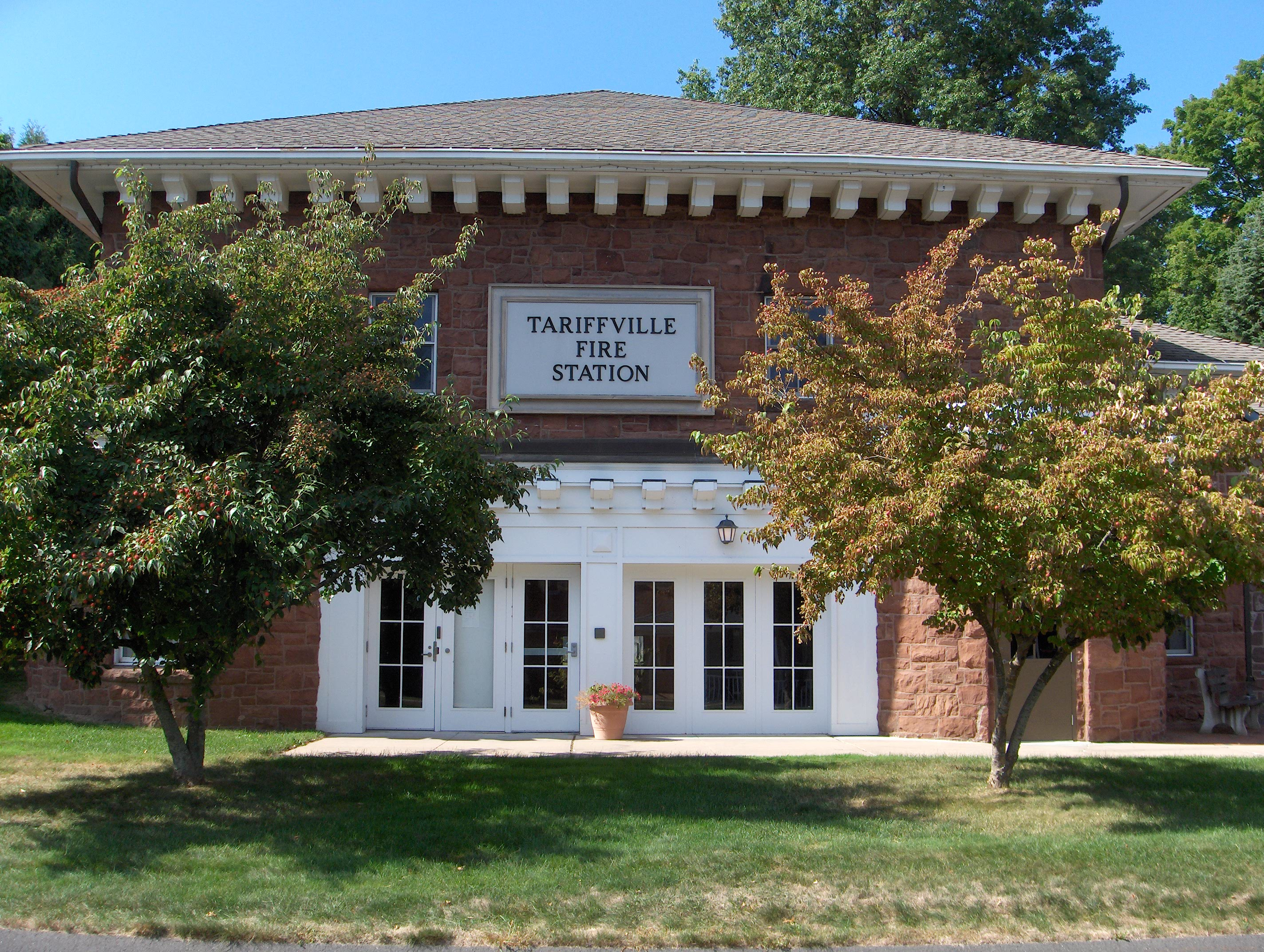 Fire Station in Tariffville CT, a village in the town of Simsbury, CT USA